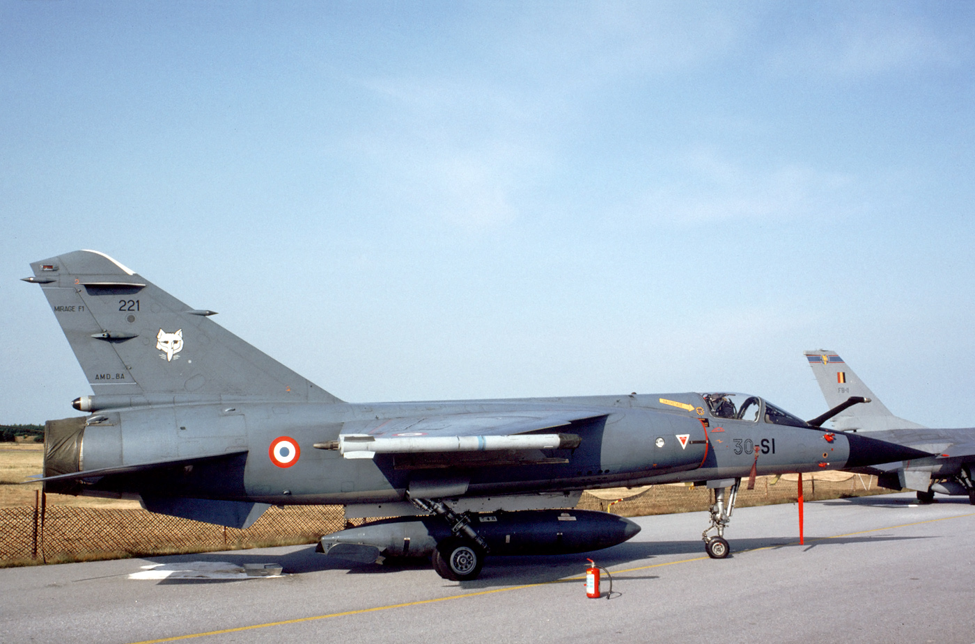 Skrydstrup airshow (Denmark), 28 June 1992. A Mirage from EC 1/30 (Reims). 221 was converted to F1CT and finally written off in 2001.